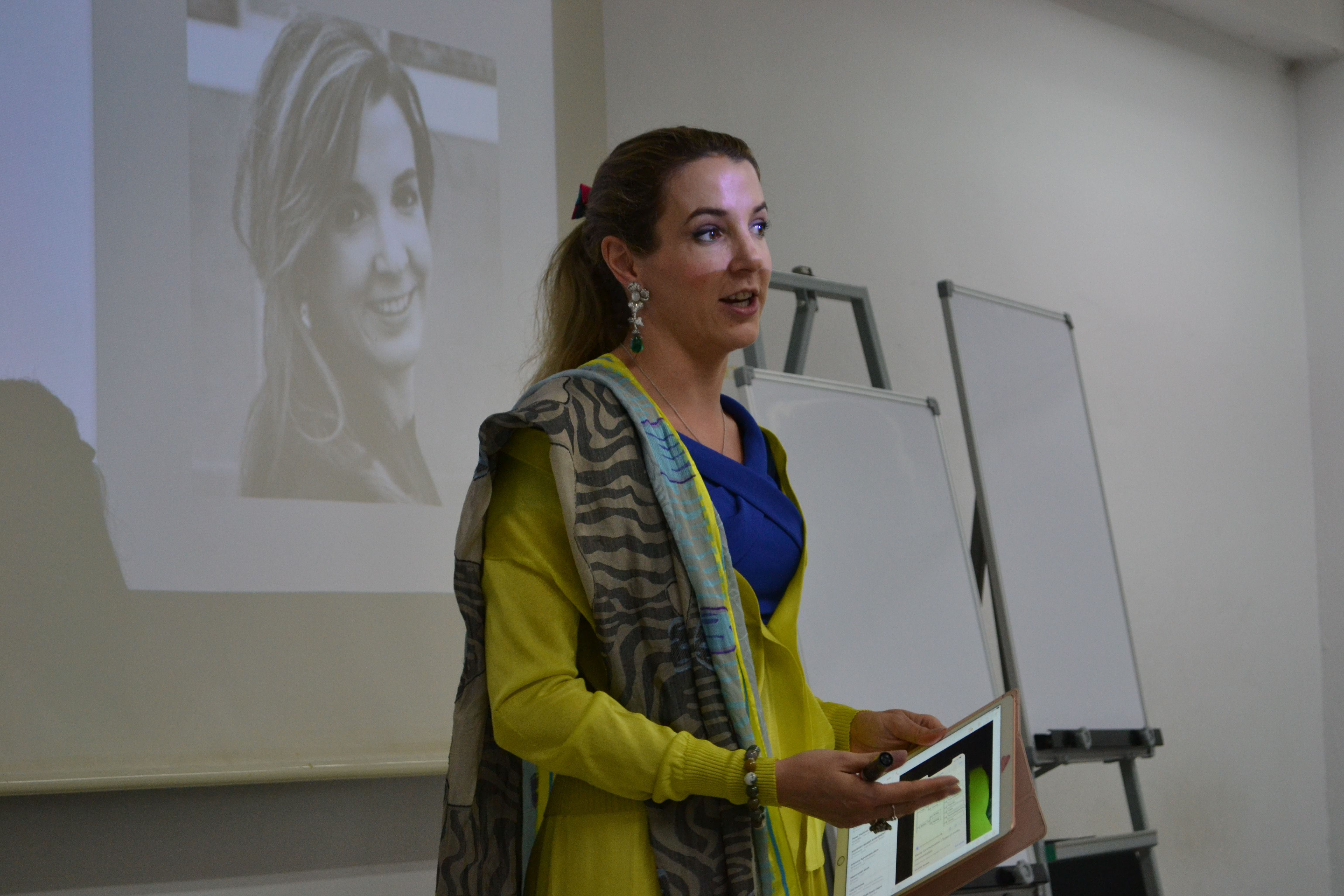 Tessy Antony de Nassau in Thailand with Professors Without Borders in July 2019.